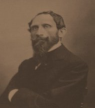 Belgian sculptor Jef Lambeaux (1852-1908), circa 1892